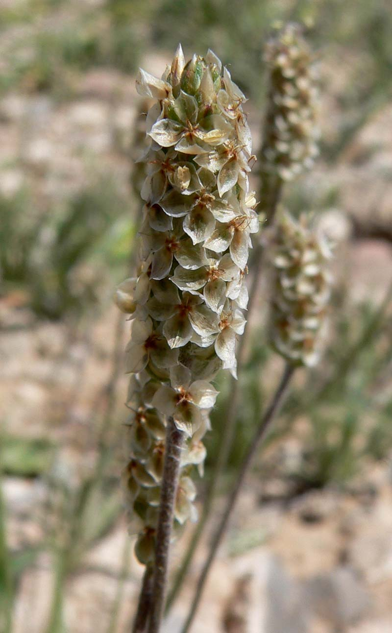 Photo of Plantago ovata (desert plantain) on southwestern slope of Frenchman Mountain east of Las Vegas, Nevada